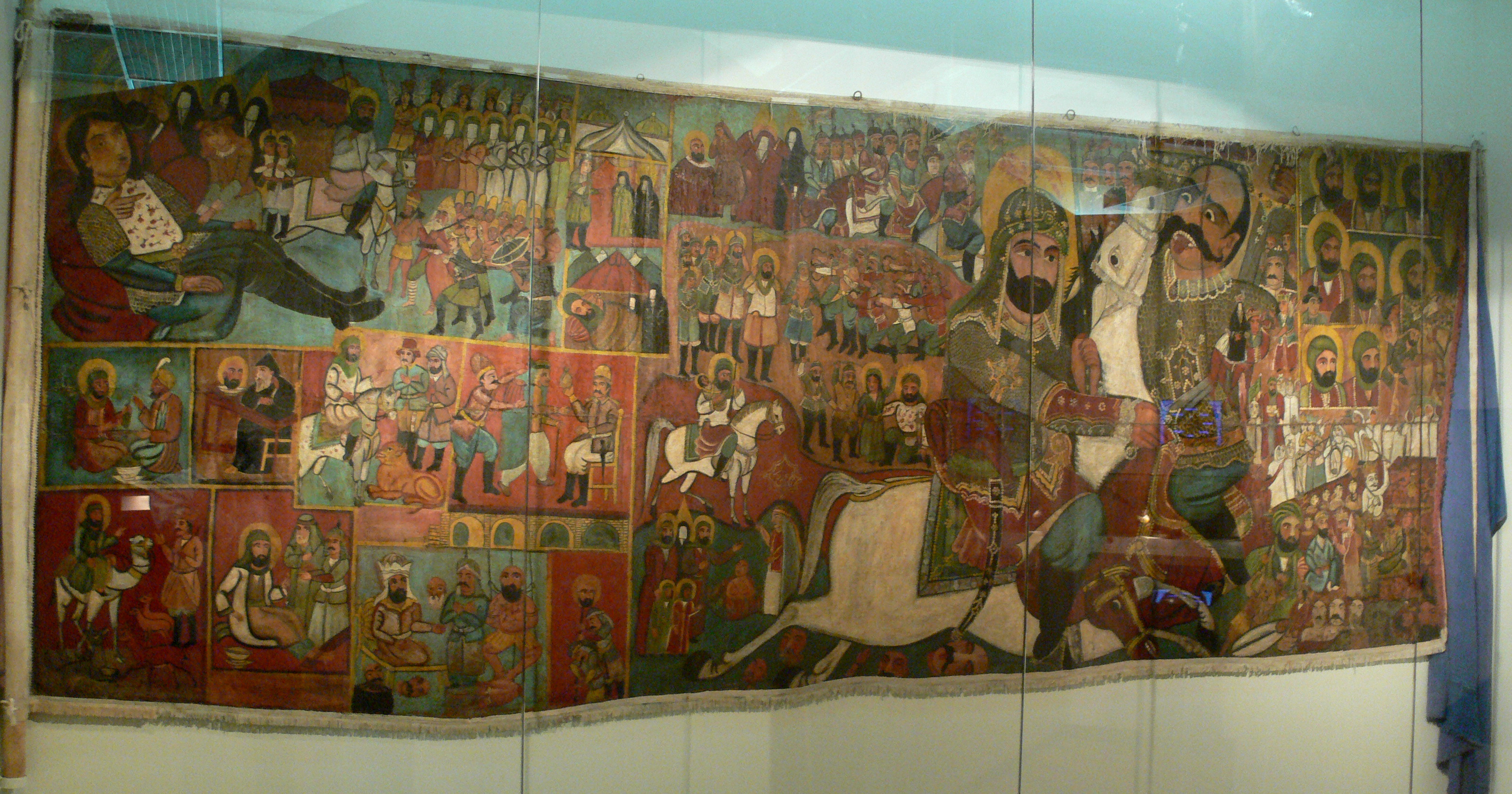 Tropenmuseum Amsterdam "Battle of Karbala", Iranian painting, oil on canvas, 19th century